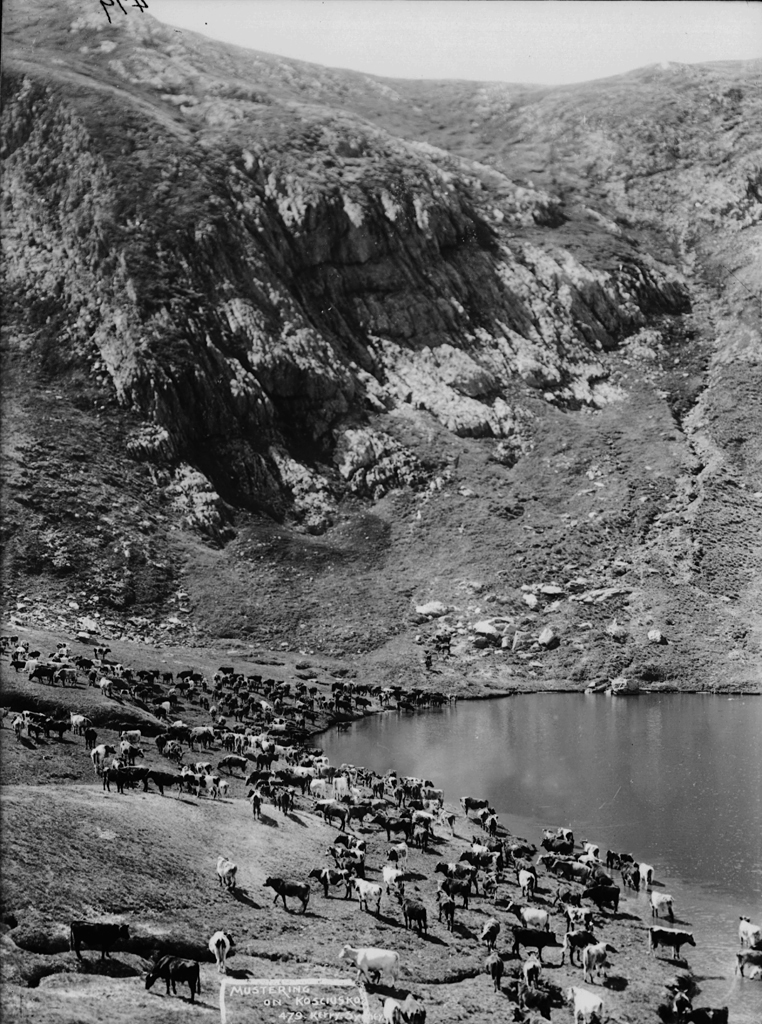 Mustering Cattle near Mt Kosciusko, Australia